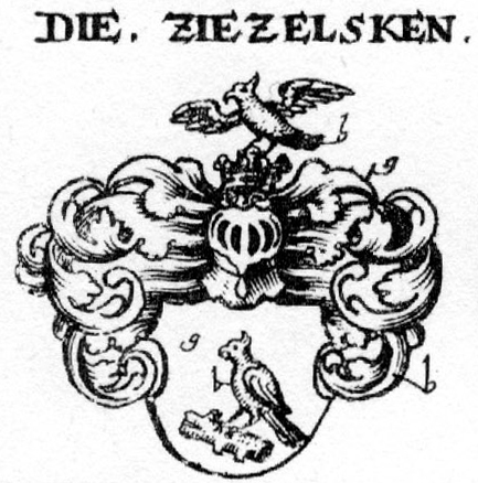 Coat of Arms Dziecielski Family